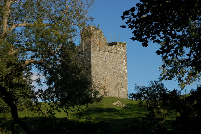 Audley's Castle, a 15th century castle located near Strangford, County Down, Northern Ireland.